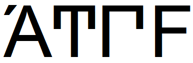 Ionic numeral 1986 in classic uppercase style, with old style pi and T-shaped sampi.